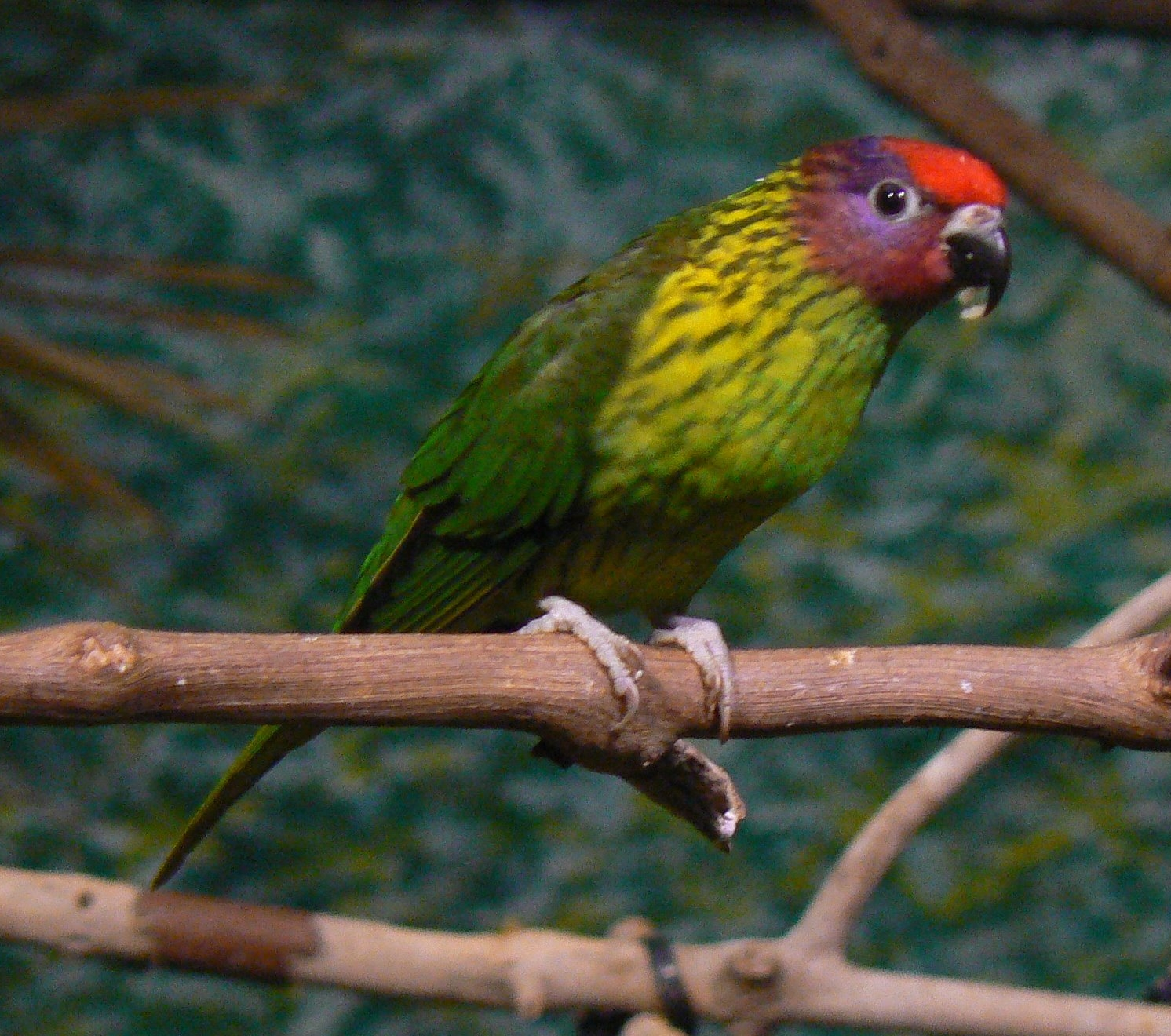 Goldie's Lorikeet (Psitteuteles goldiei) at Pittsburgh National Aviary, USA.